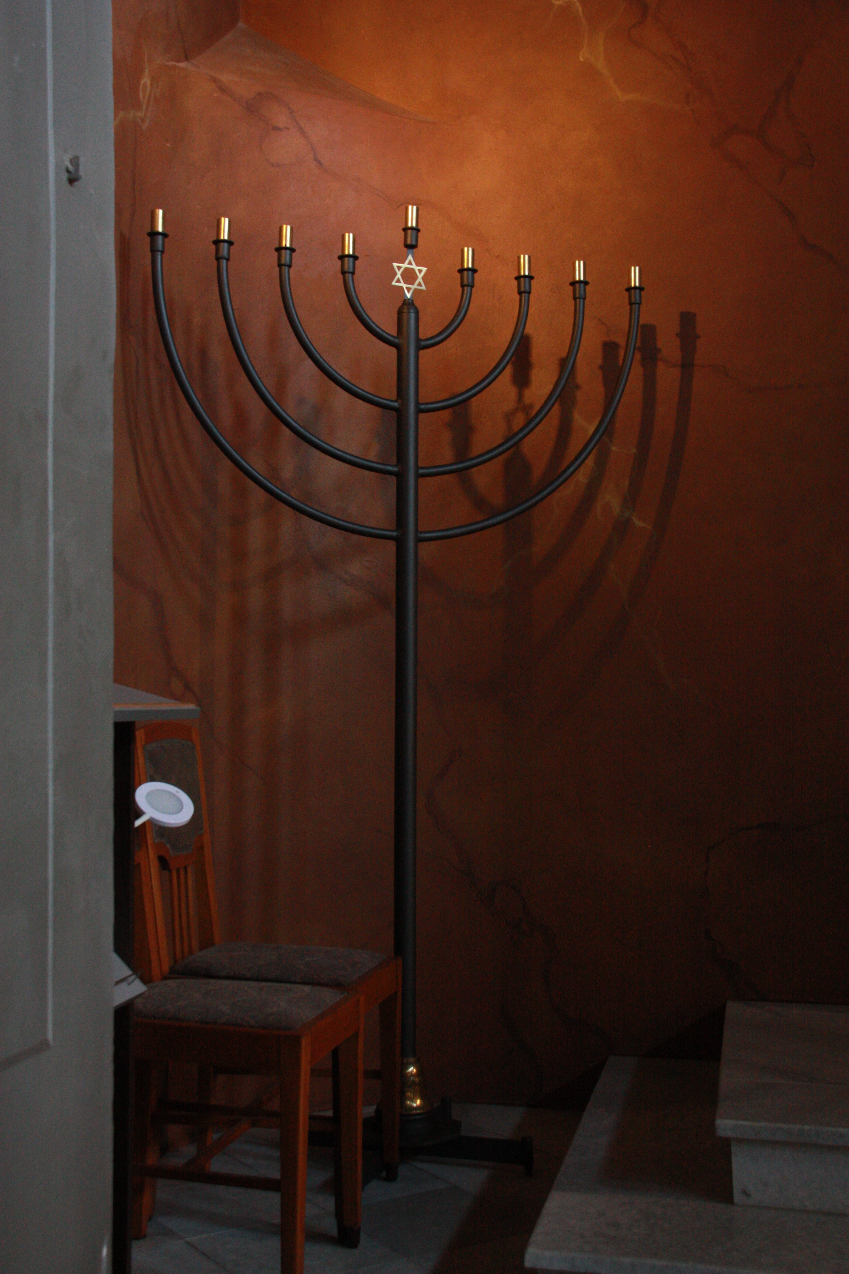 Interior of Krnov synagogue, Bruntál District, Moravian-Silesian Region, Czech Republic